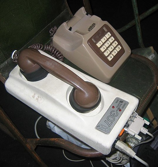 An acoussic coupler modem.